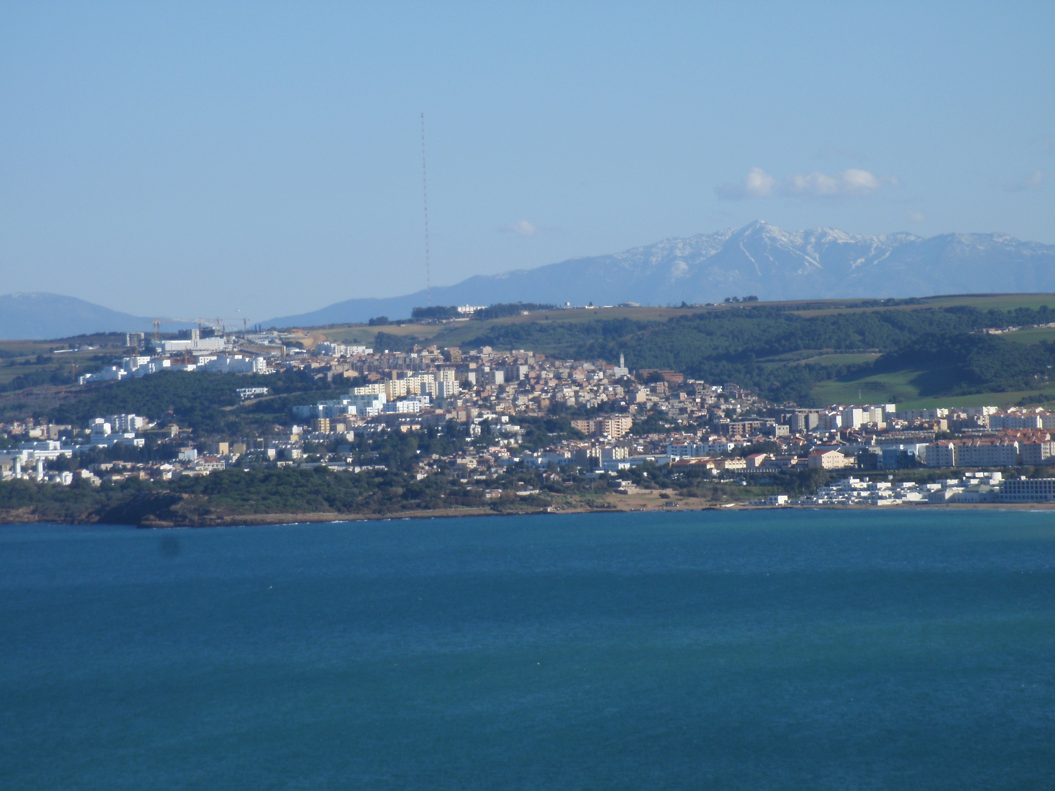 The city of Tipaza — and its setting on the coast in Tipaza Province, north-central Algeria.